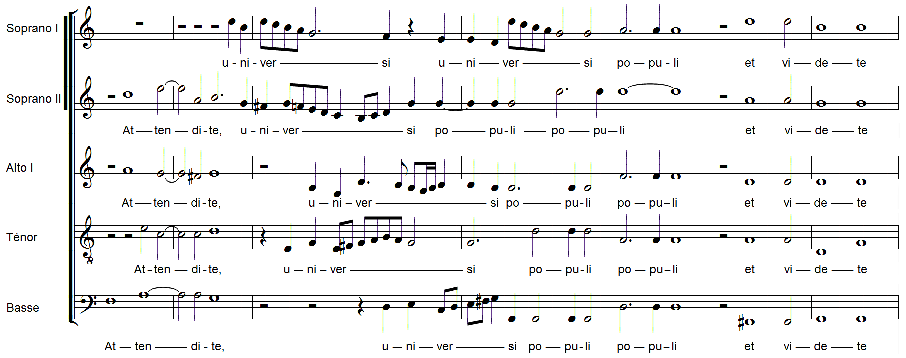 Gesualdo - Attendite et videte